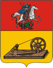 Noginsk (Bogorodsk, Moscow oblast), coat of arms (1781)